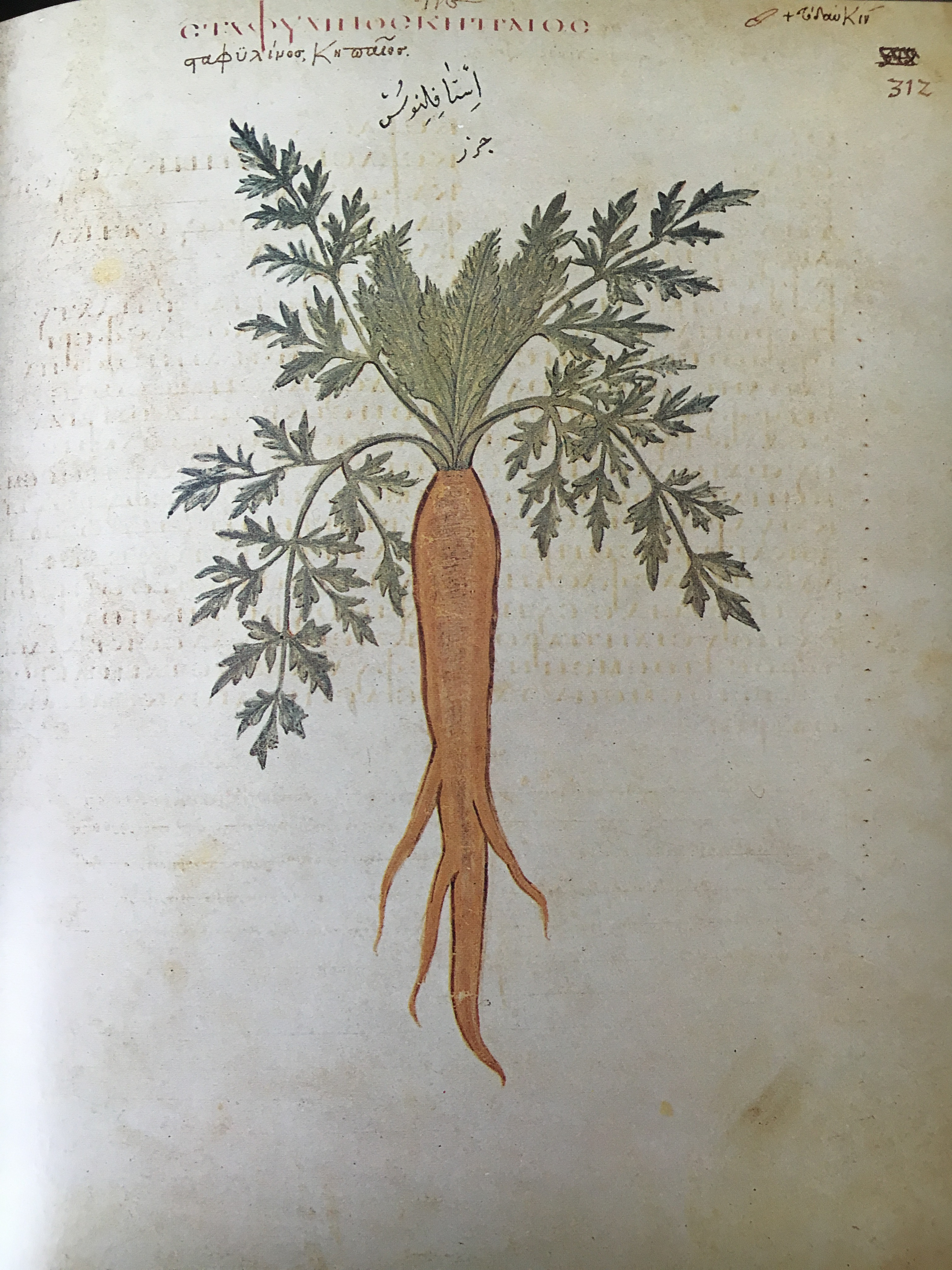 A depiction of a carrot from the Eastern Roman Juliana Anicia Codex.